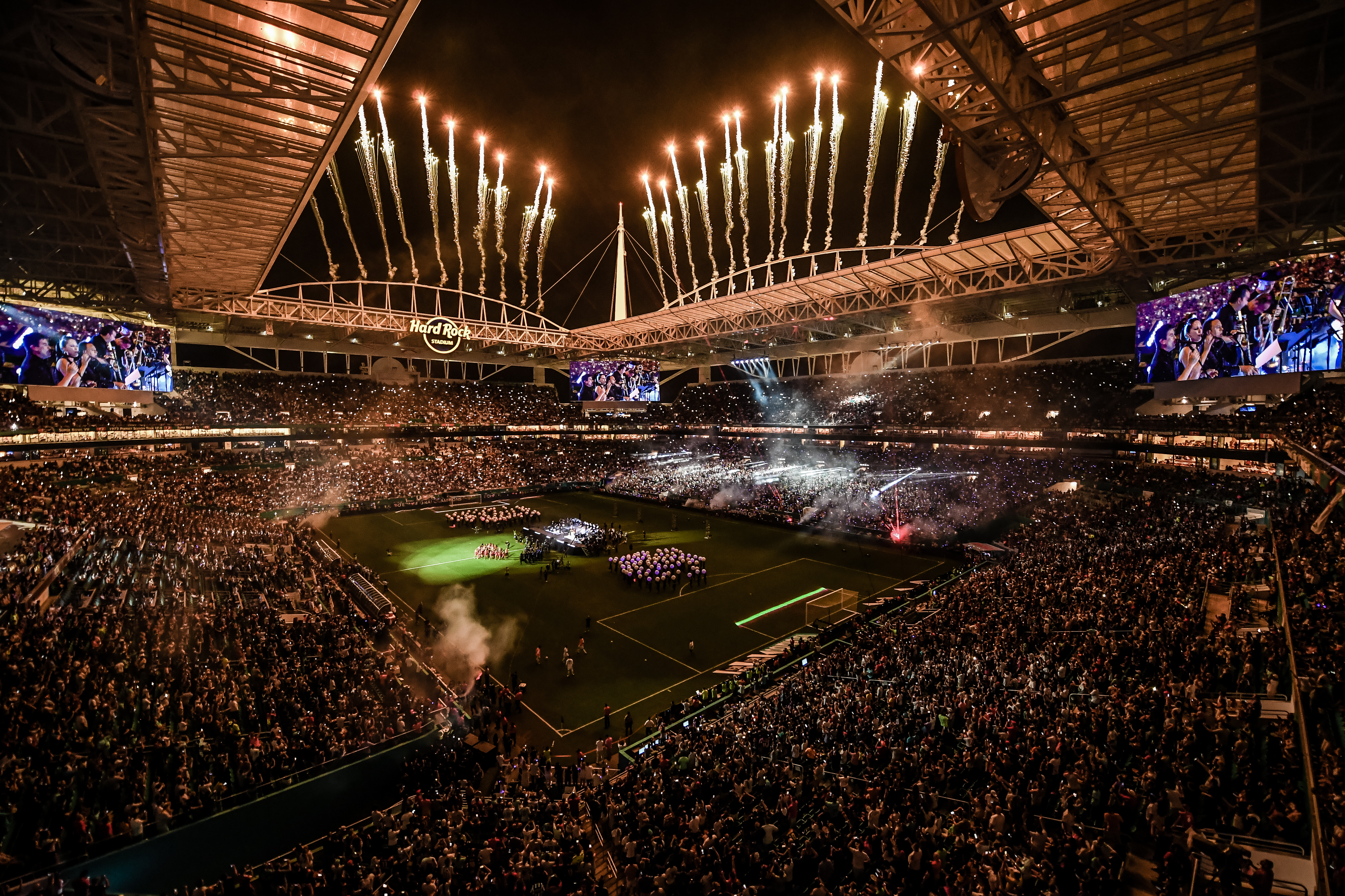 Marc Anthony performs at halftime of El Clásico Miami on July 29, 2017.